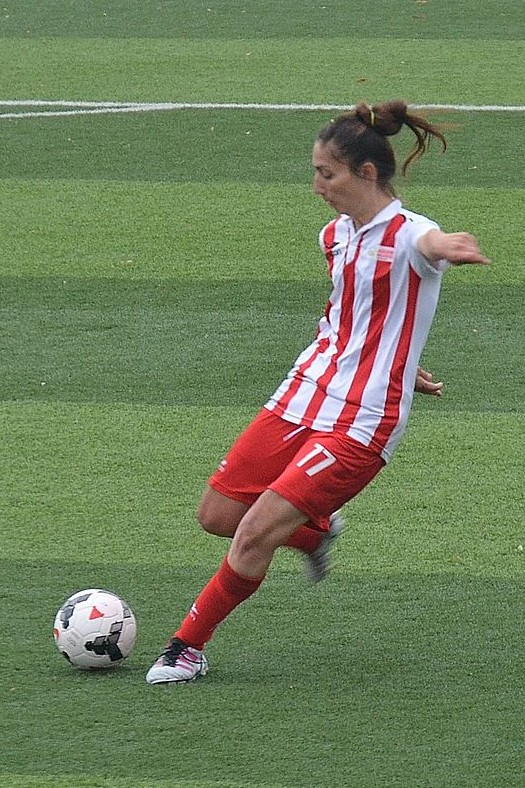 Reyhan Şeker for Ataşehir Belediyespor in the 2014-15 season